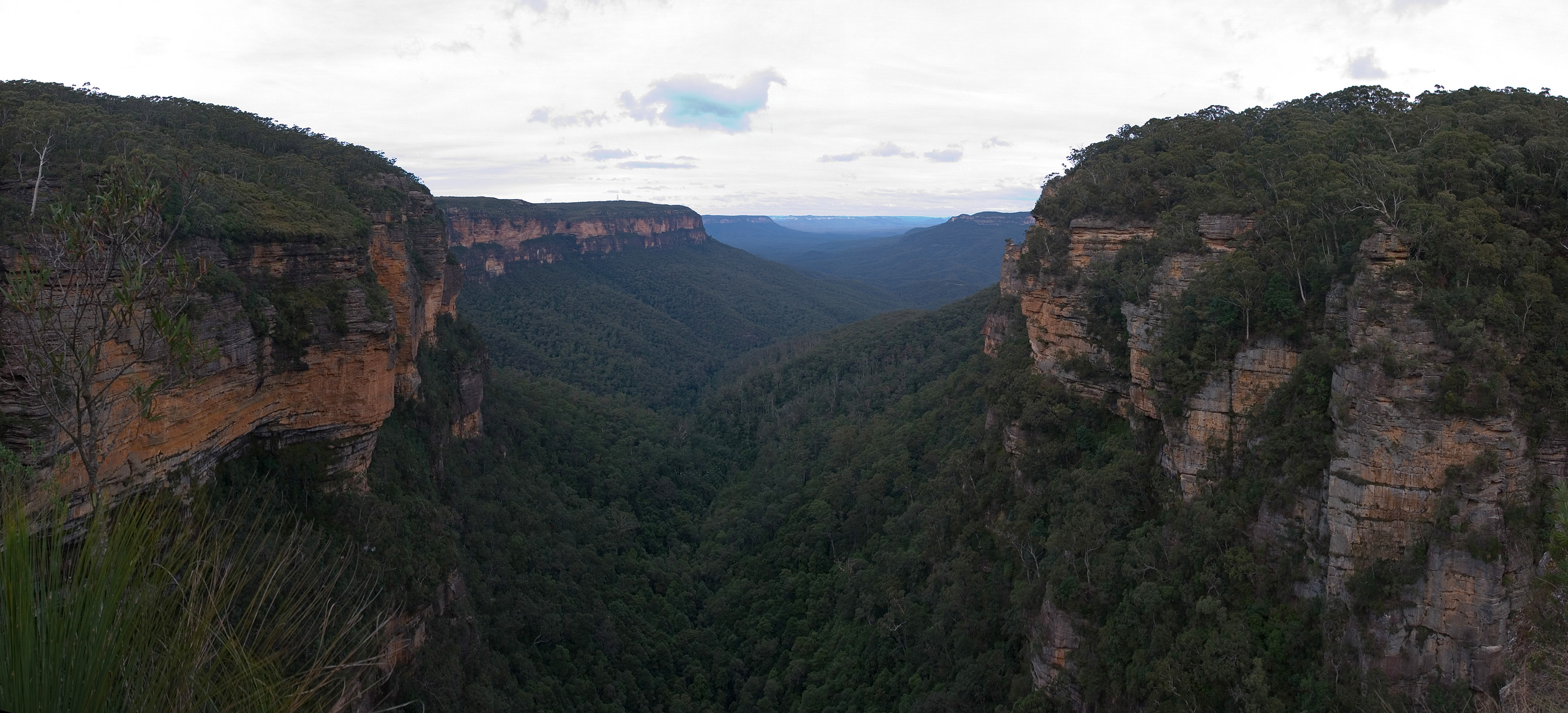 A panorama the Blue Mountains on an overcast day in June 2005, New South Wales, Australia. This is a panorama of six images taken with a Canon 10D and 17-40mm f/4 stitched in portrait format.